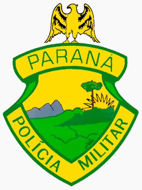 Old Badge of Military Police of Paraná - Brazil.